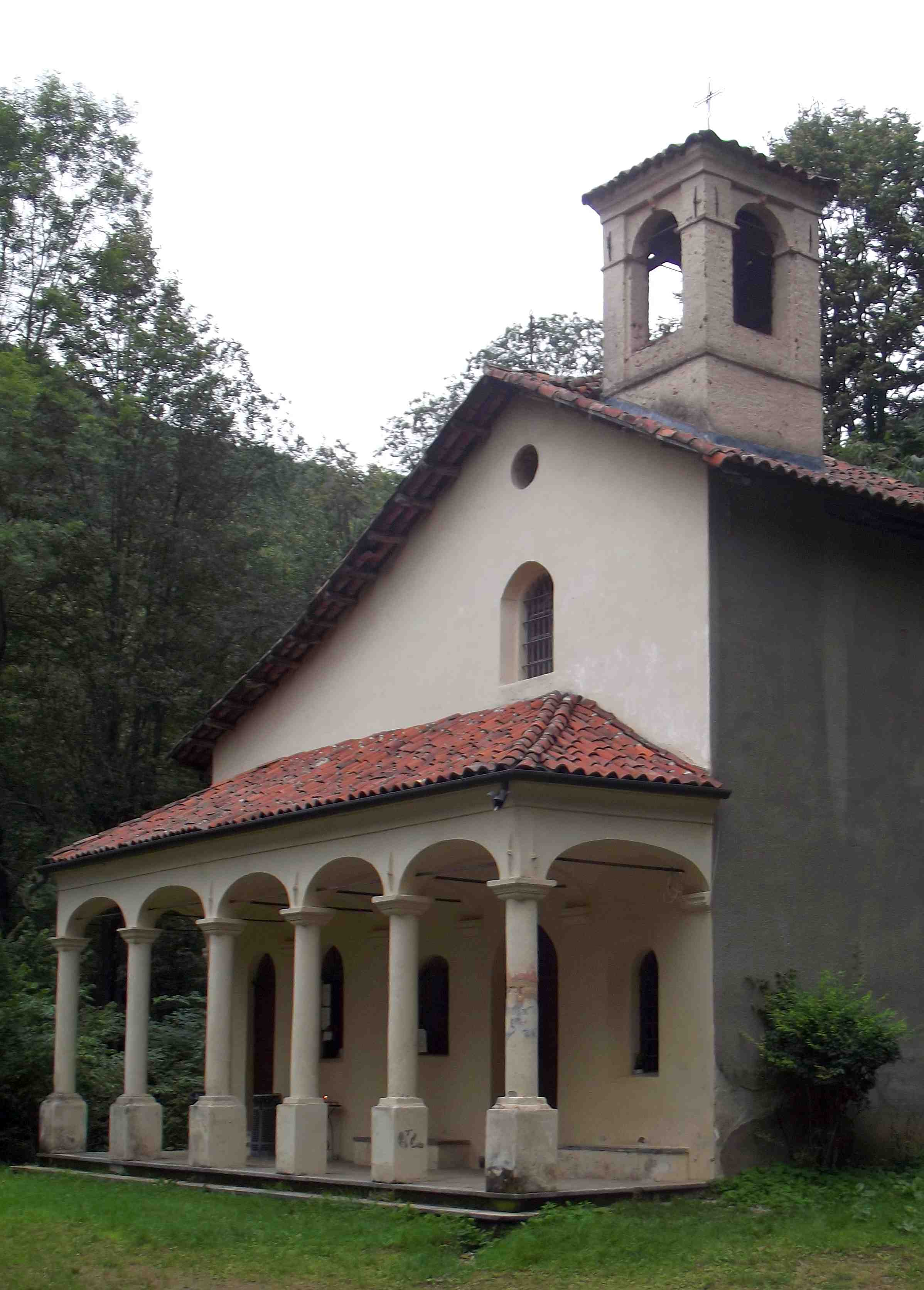 Santuario dei Moglietti (Coggiola, BI, Italy) Piemontèis: Santuari dij Muijeit